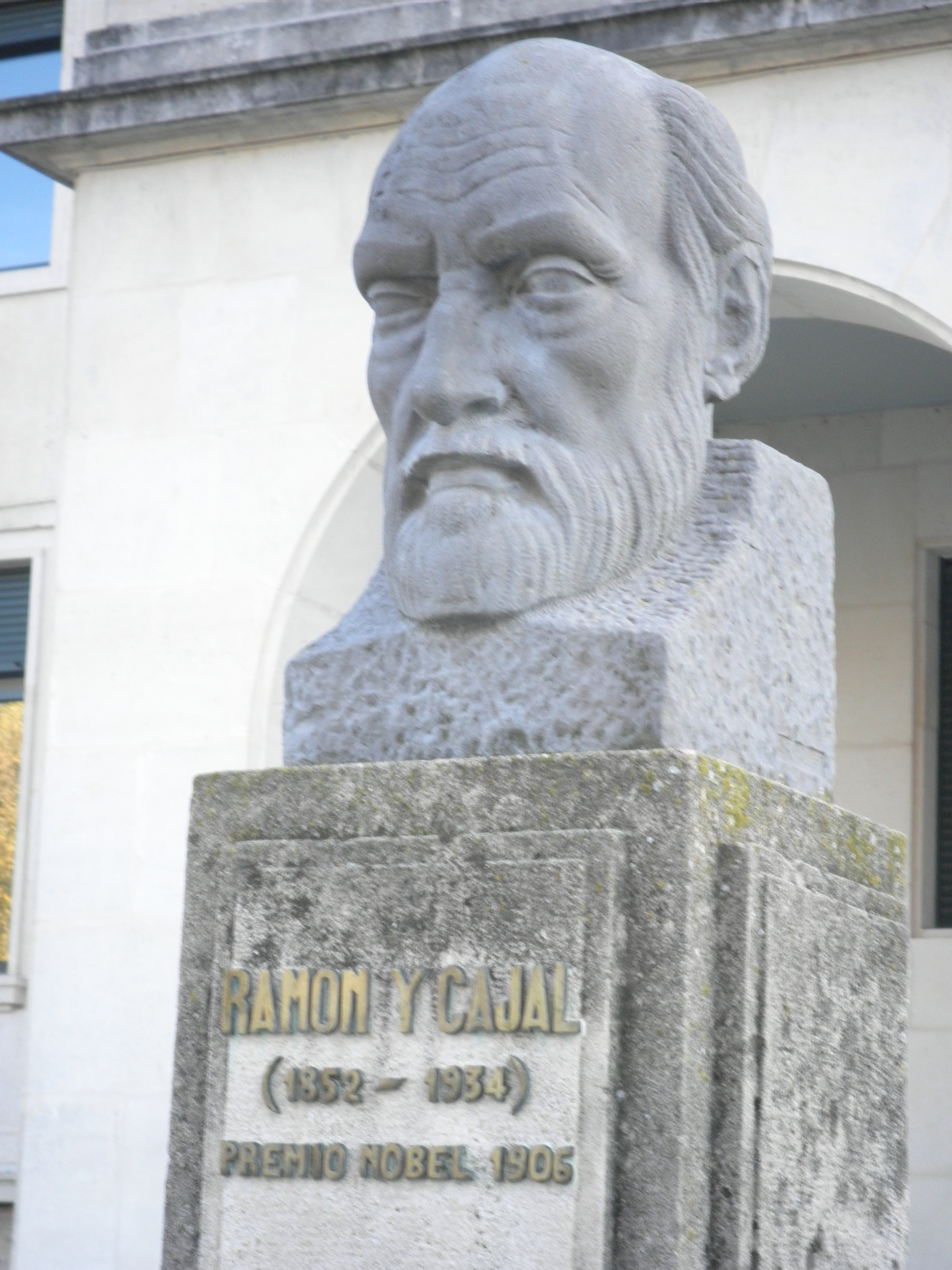 Nobel Prize laureate Santiago Ramón y Cajal bust in Burgos